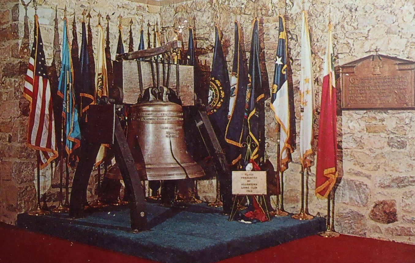 Liberty Bell Shrine, with a replica of the Liberty Bell. The shrine located in the basement of Zion's Memorial Church, Allentown, Pennsylvania - 1962